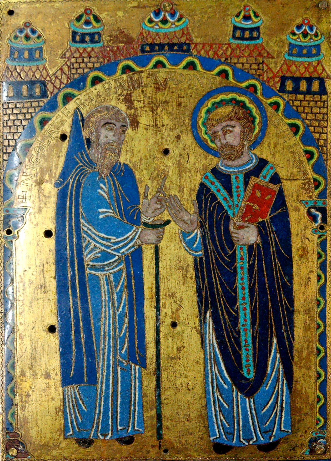 St. Stephen of Muret and Hugh of Lacerta: plaque from the high altar at the abbey of Grandmont. Champlevé copper, engraved, chased, enameled and gilt, Limoges, 1189–1190.